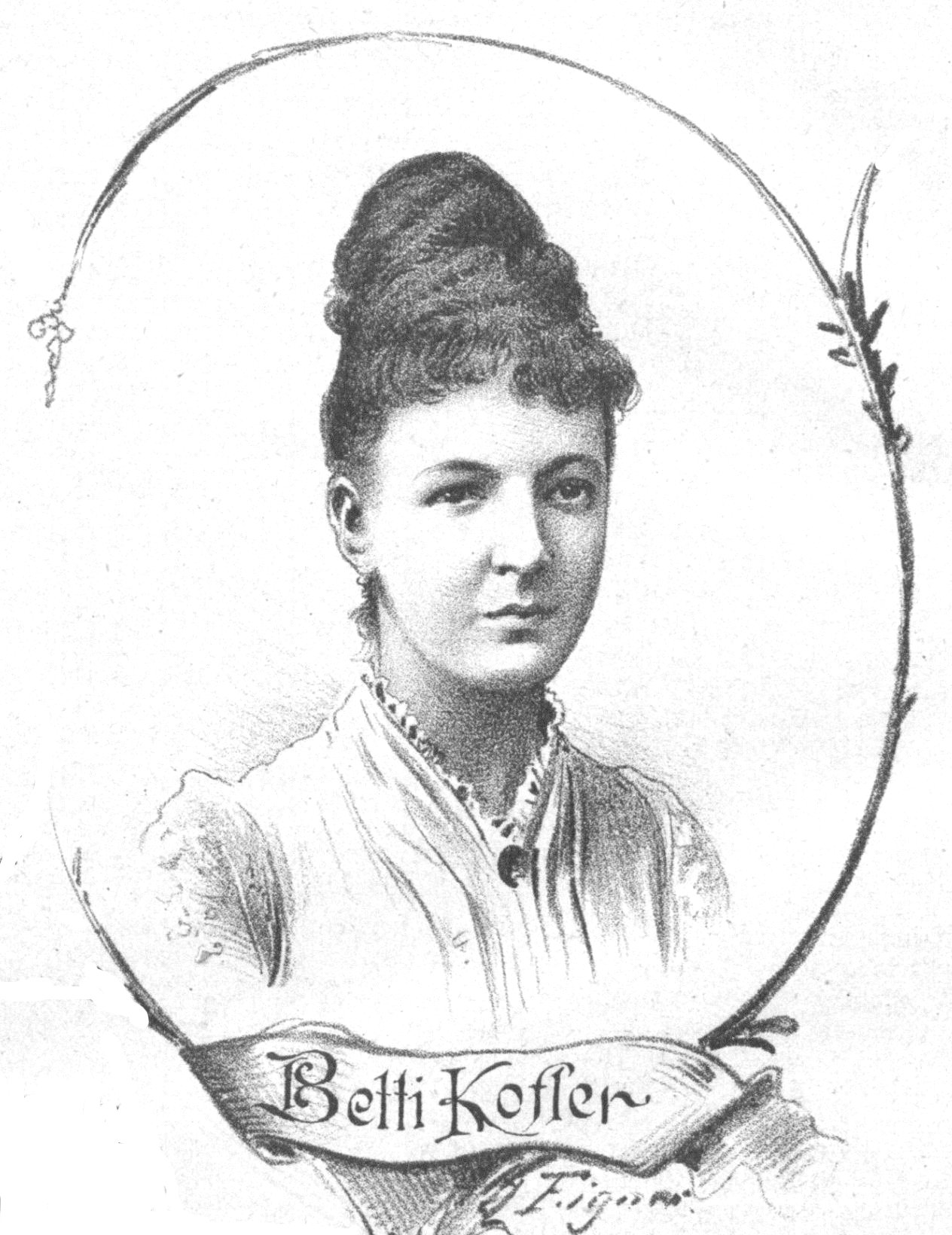 Portrait of Betty Kofler (1874-1933), Austrian opera singer.